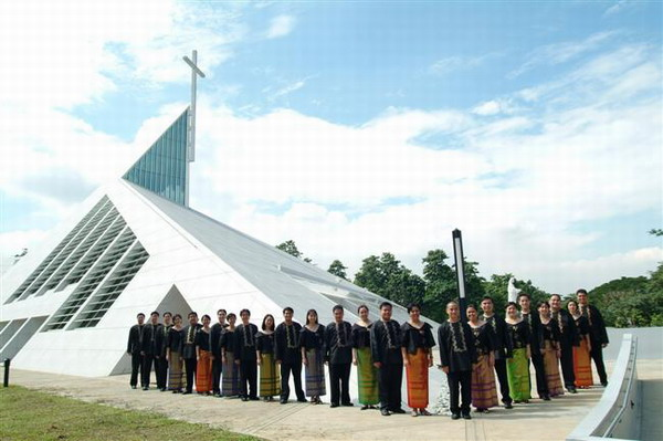 Gesu group034